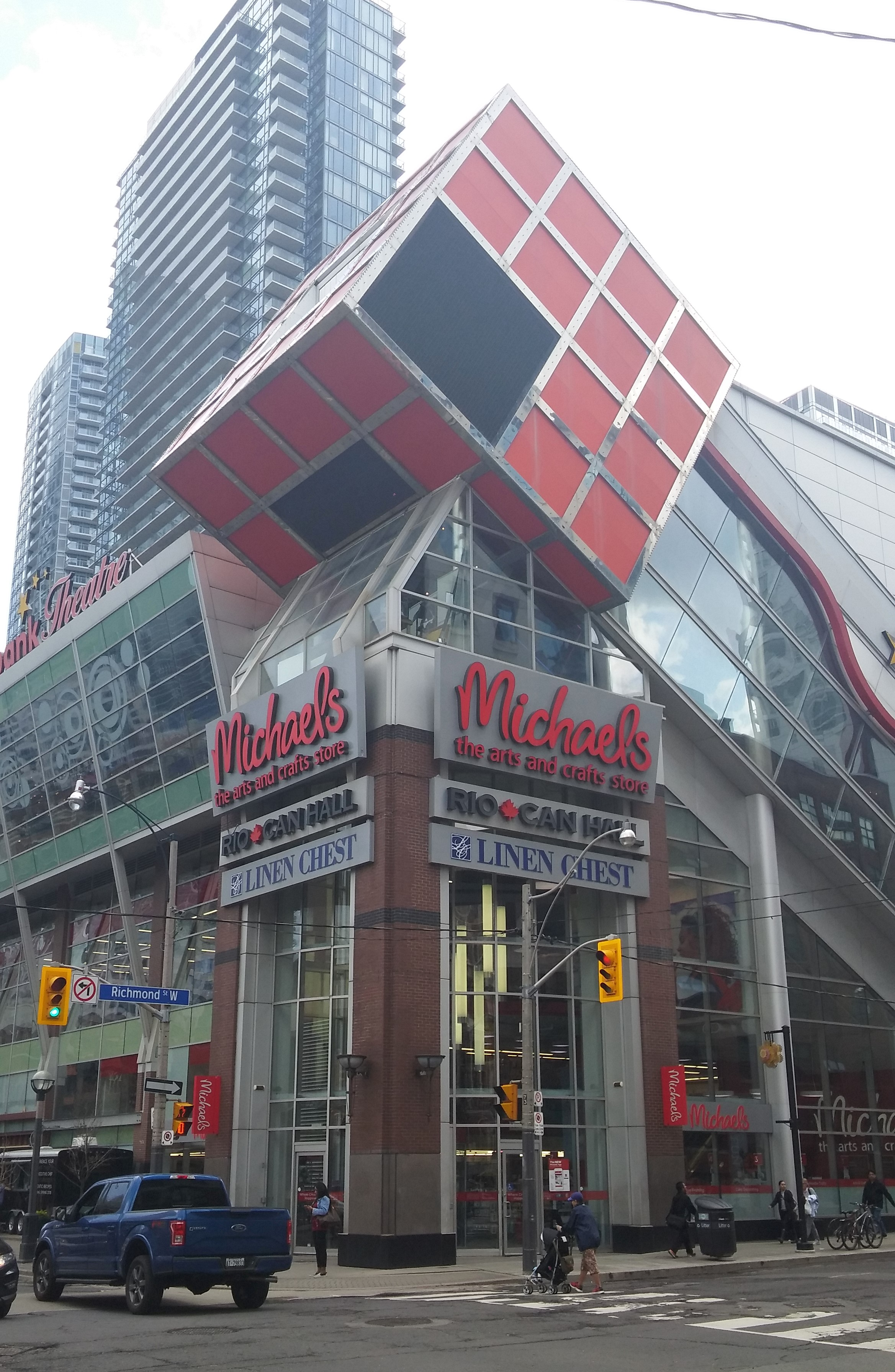 The RioCan Hall in Toronto, Canada at John Street and Richmond Street West.